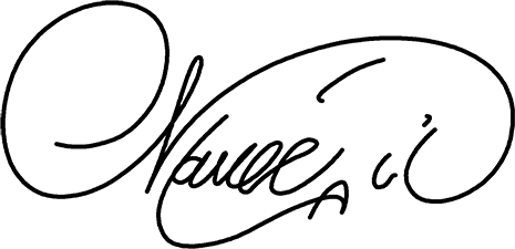 Signature of Naser Abdullahi (Iranian singer).